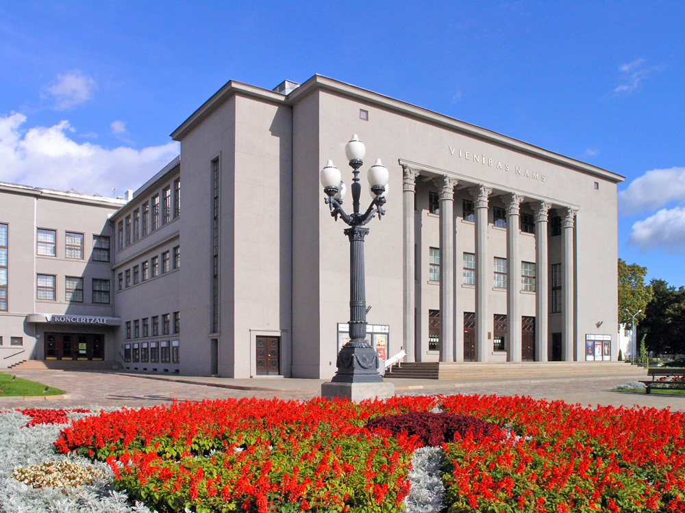 Unity House in Daugavpils Latgaļu: Vīneibys noms Daugpilī